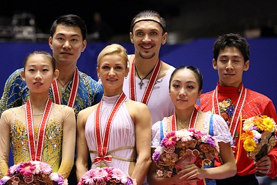 The pair skating at the 2013 NHK Trophy. From left: Peng Cheng / Zhang Hao (2nd), Tatiana Volosozhar / Maxim Trankov(1st), Sui Wenjing / Han Cong (3rd).